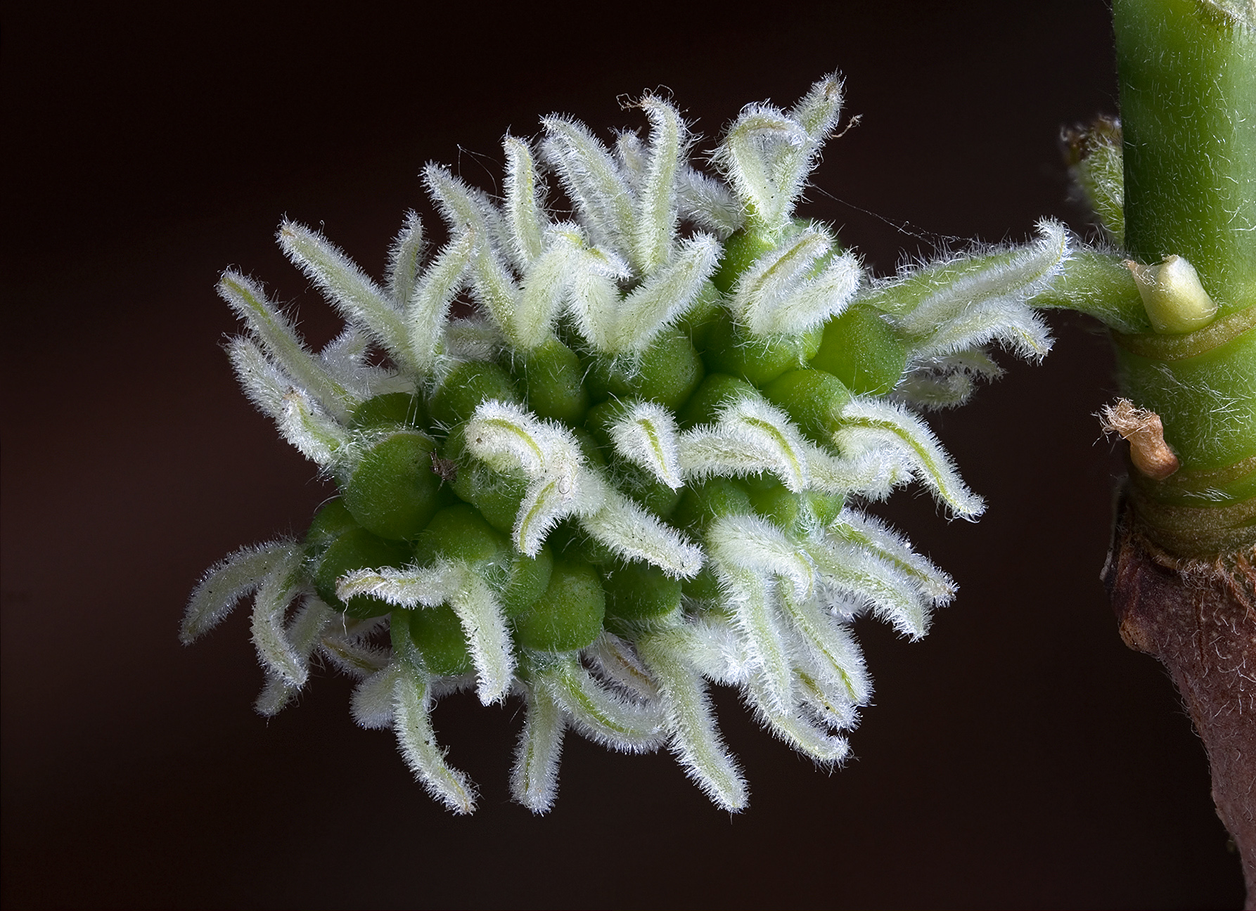 Female flowers of a monoecious variety of the Black Mulberry.